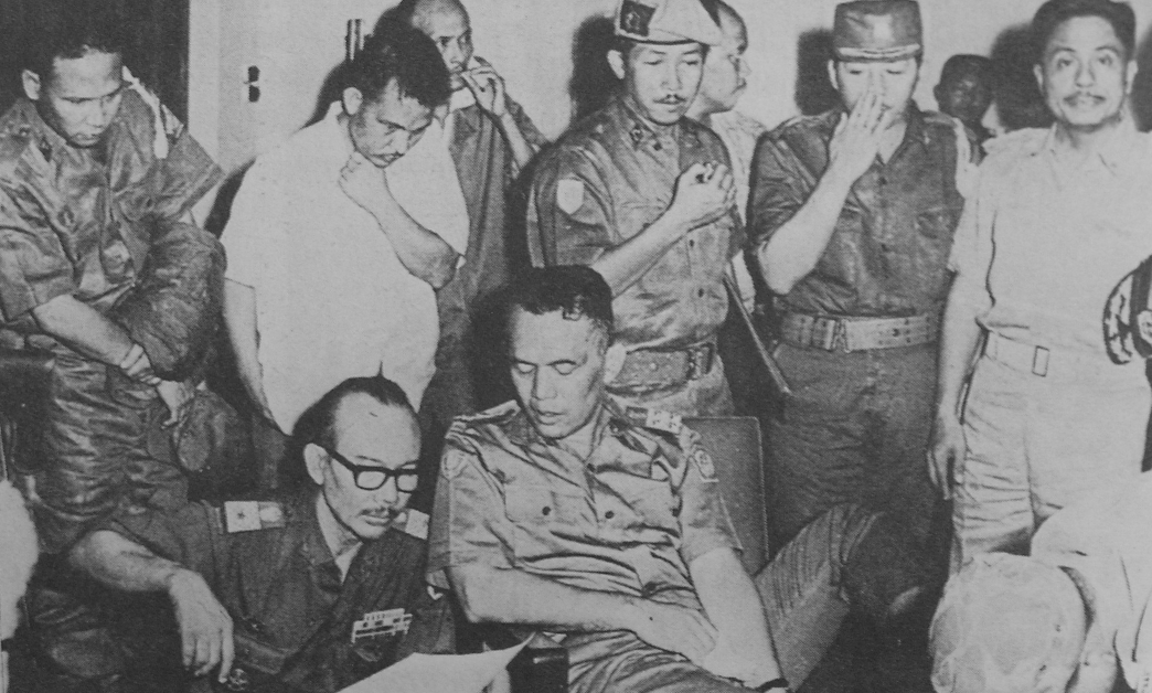 Nasution, having his injured foot treated, in discussion with Ibnu Subroto on the night of 1 October 1965 as Kostrad HQ, Jakarta